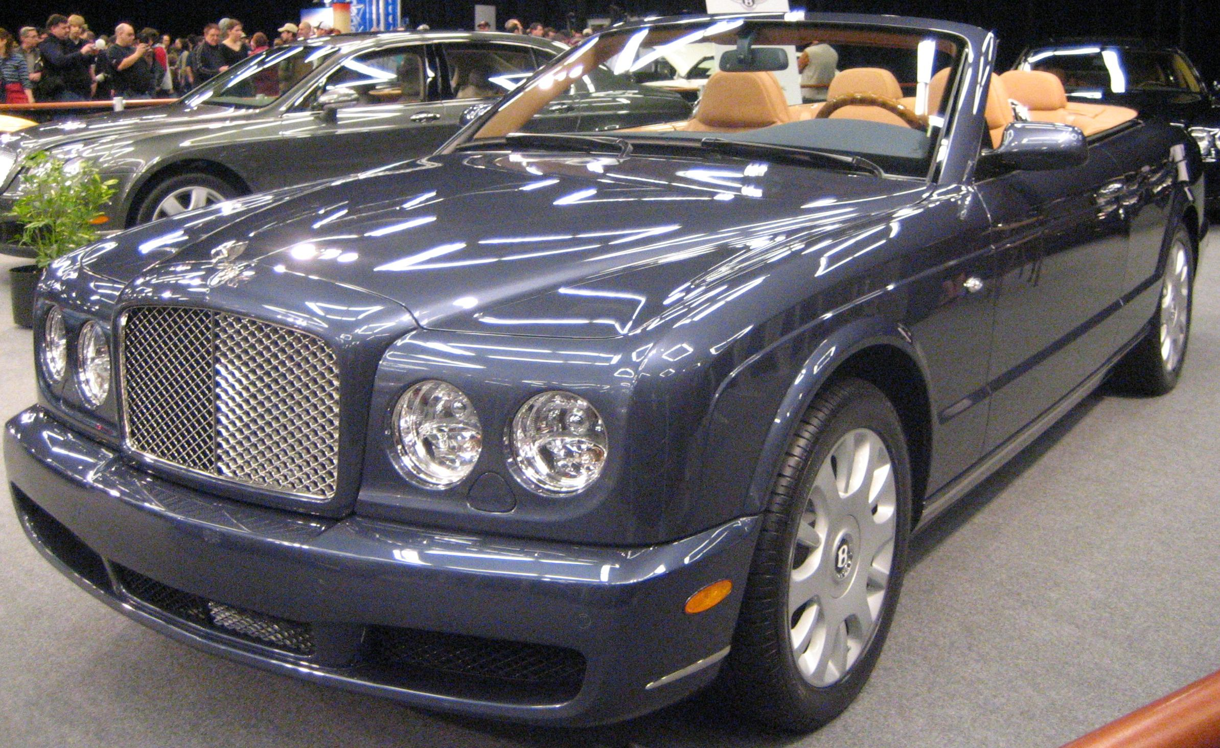 2007 Bentley Azure photographed at the 2007 Montreal Auto Show.